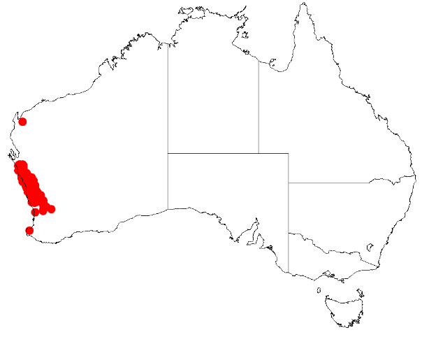 Acacia blakelyi Occurrence data from Australasian Virtual Herbarium downloaded from on 8 December 2018